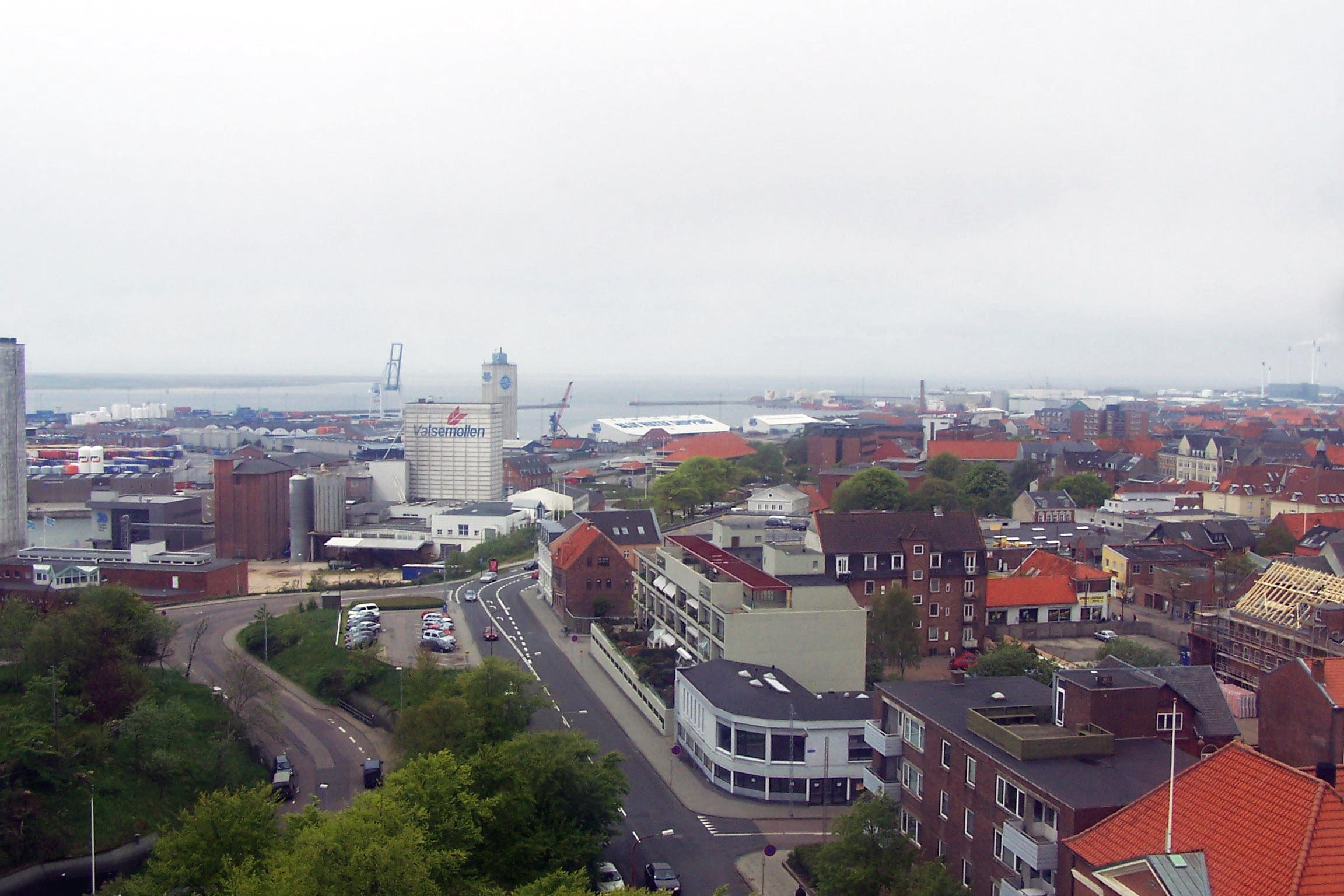 Esbjerg in Denmark, harbour seen from the watertower. Photo by Cnyborg, May 2005.